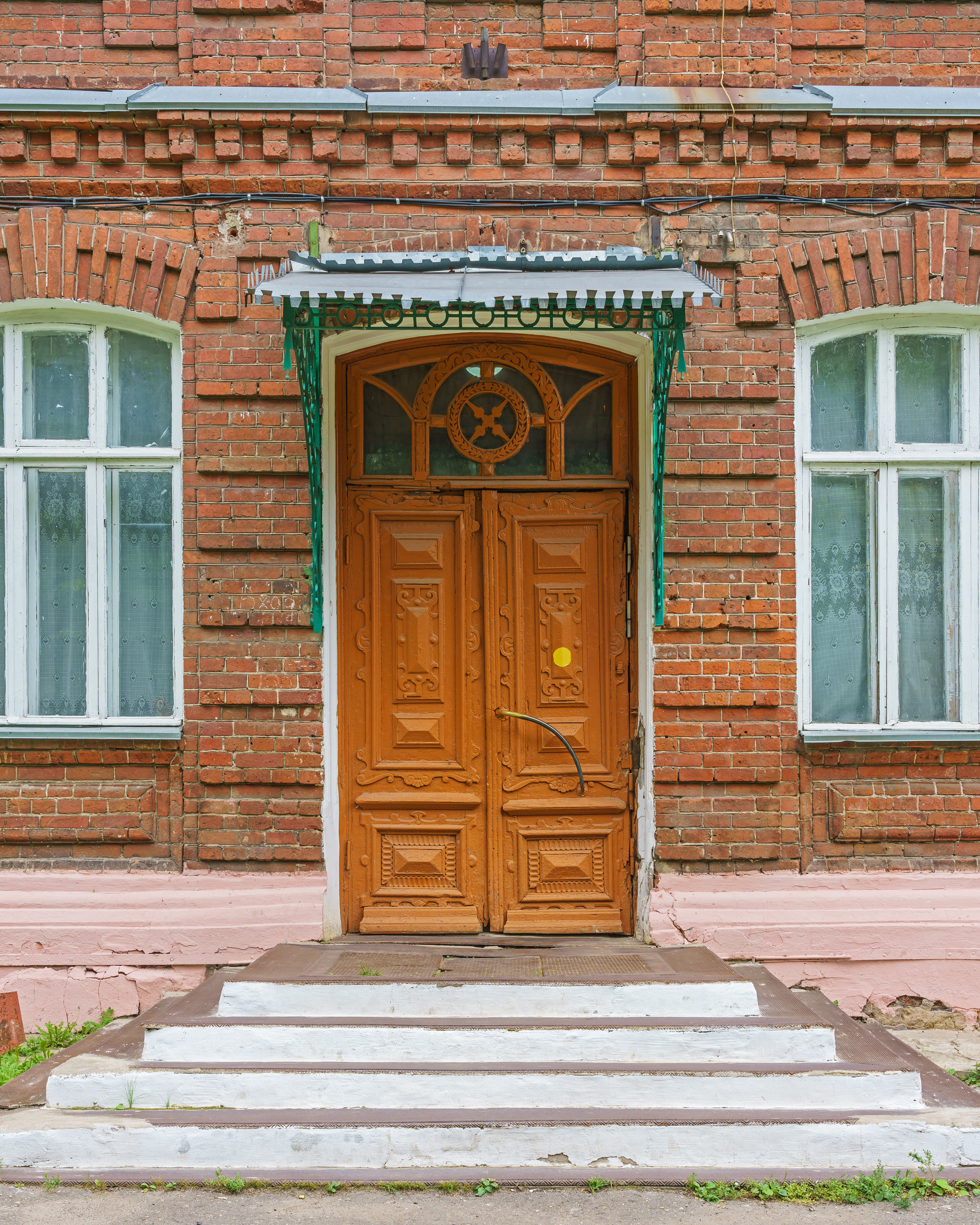 Historical hospital building in Rodniki, Ivanovo Oblast, Russia.